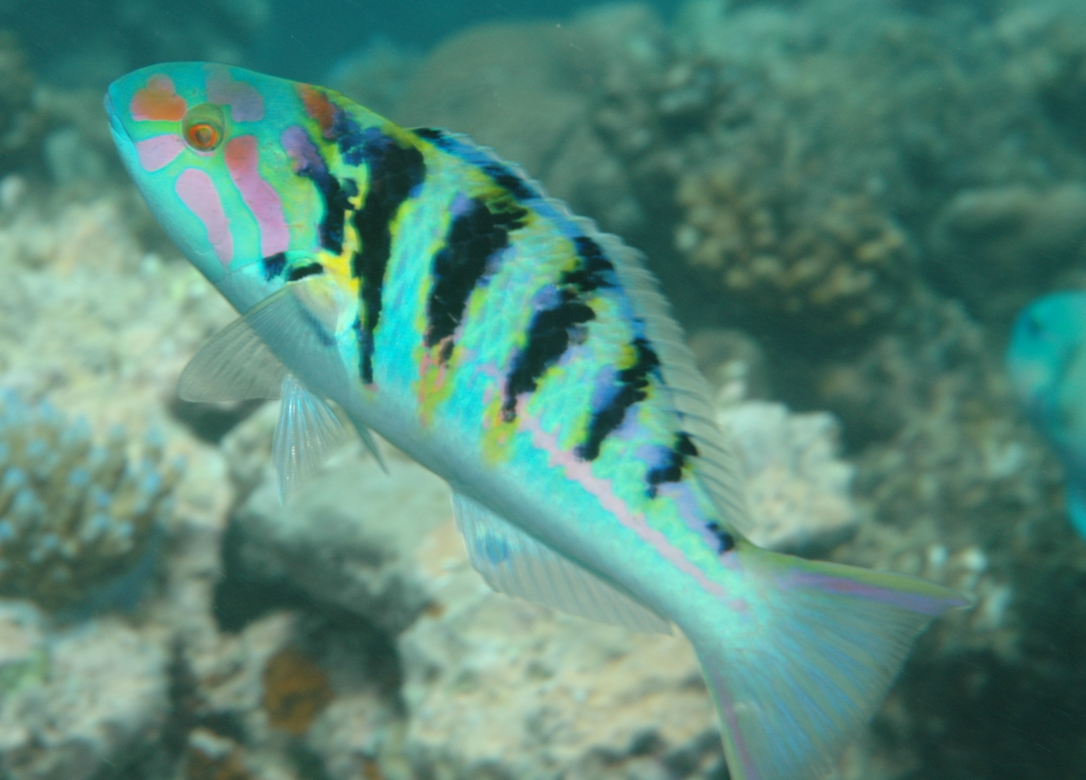 Thalassoma hardwicke